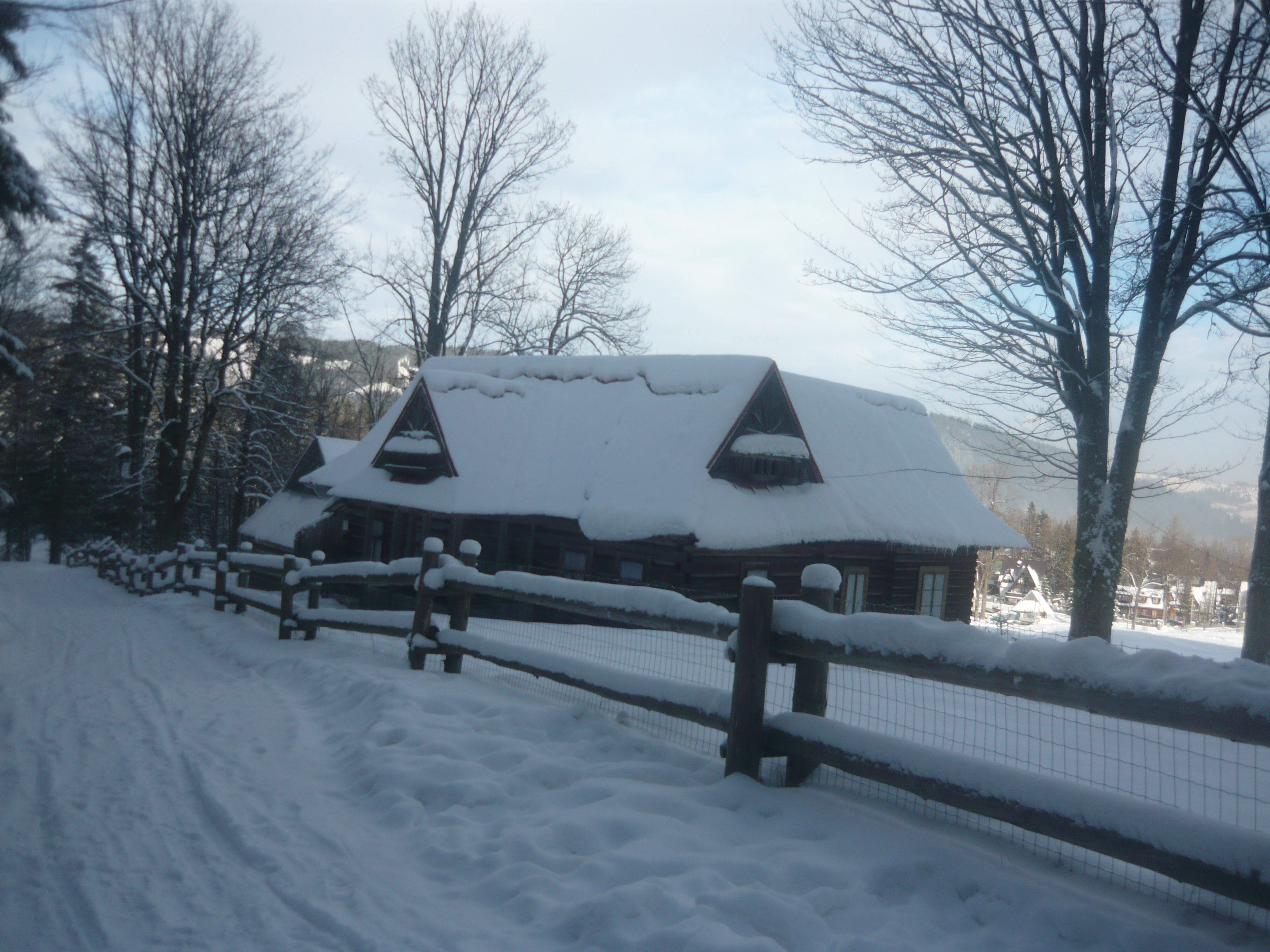 Chata Góralska